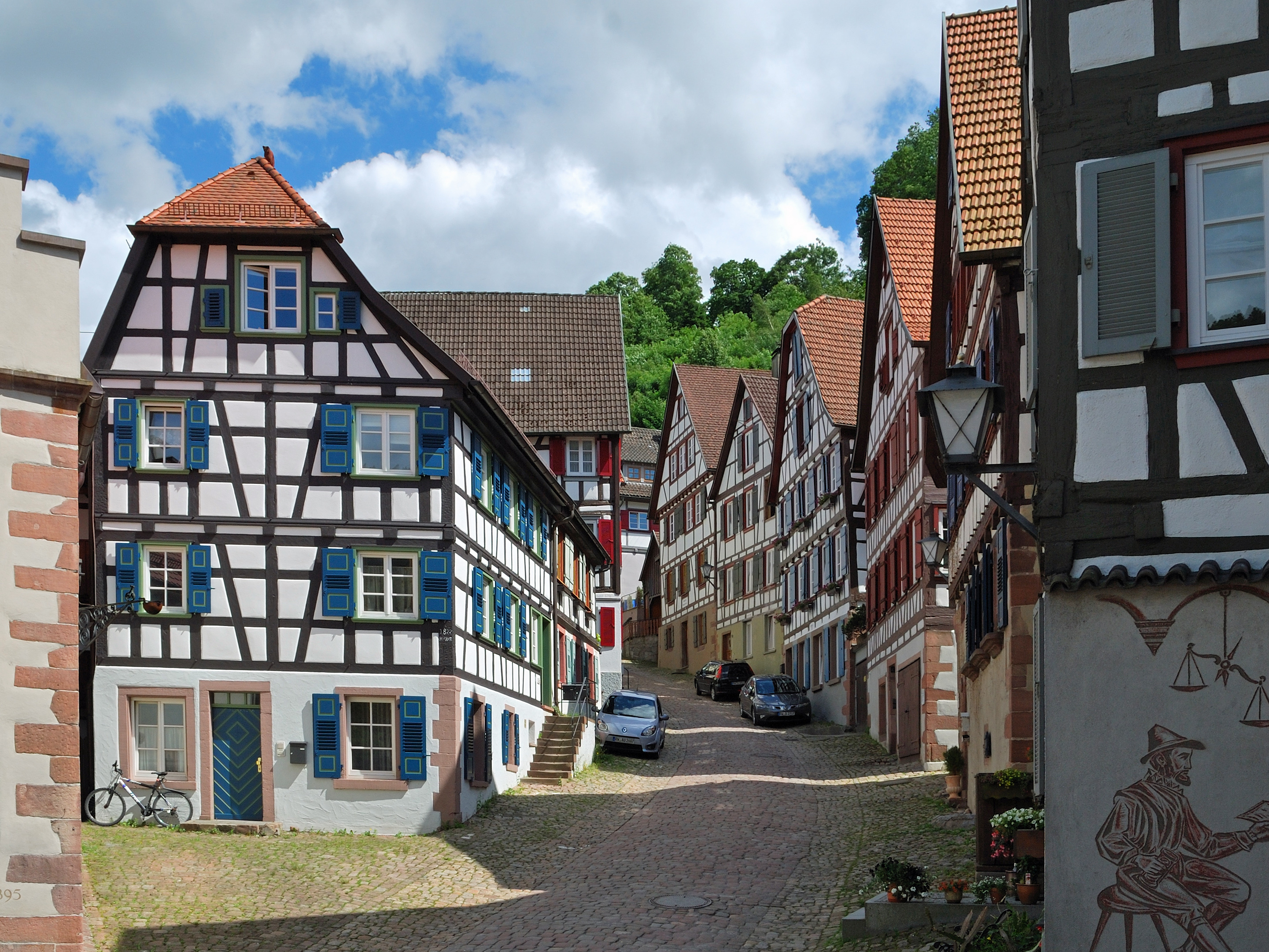 Timber framing in Schlossbergstraße, as seen from the Market Place in Schiltach in the federal state Baden-Württemberg in Southern Germany.